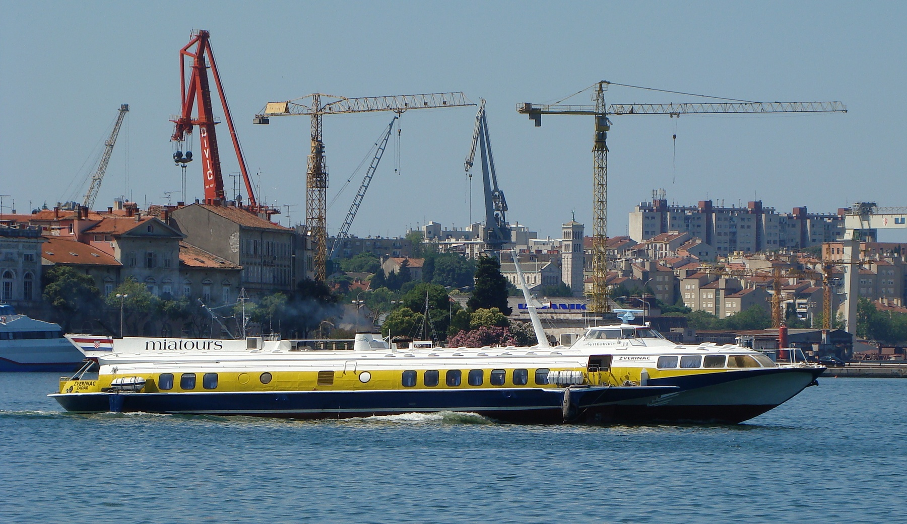 Žverinac hydrofoil in the port of Pula